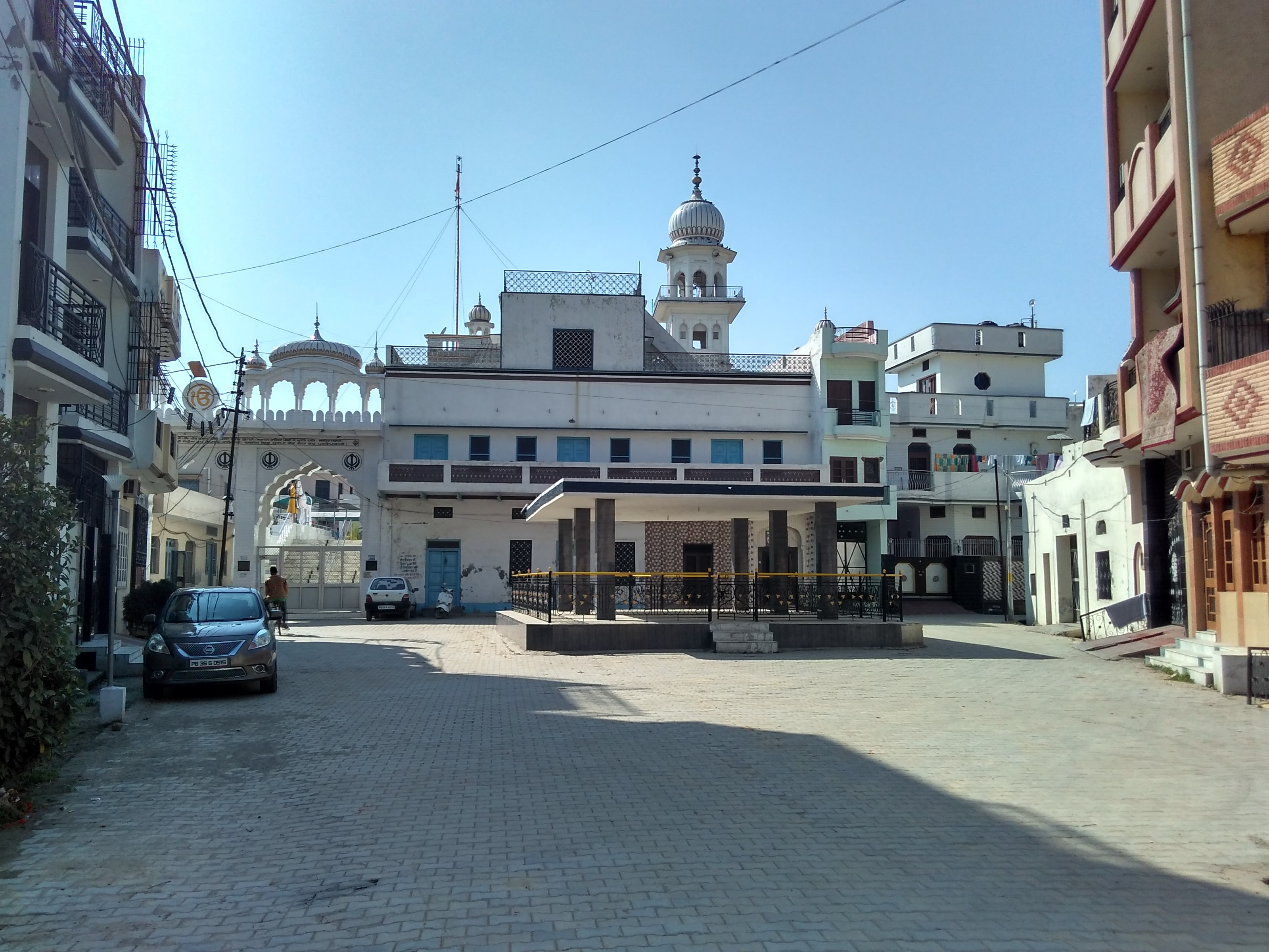 ਪਲਾਹੀ ਸਾਹਿਬ